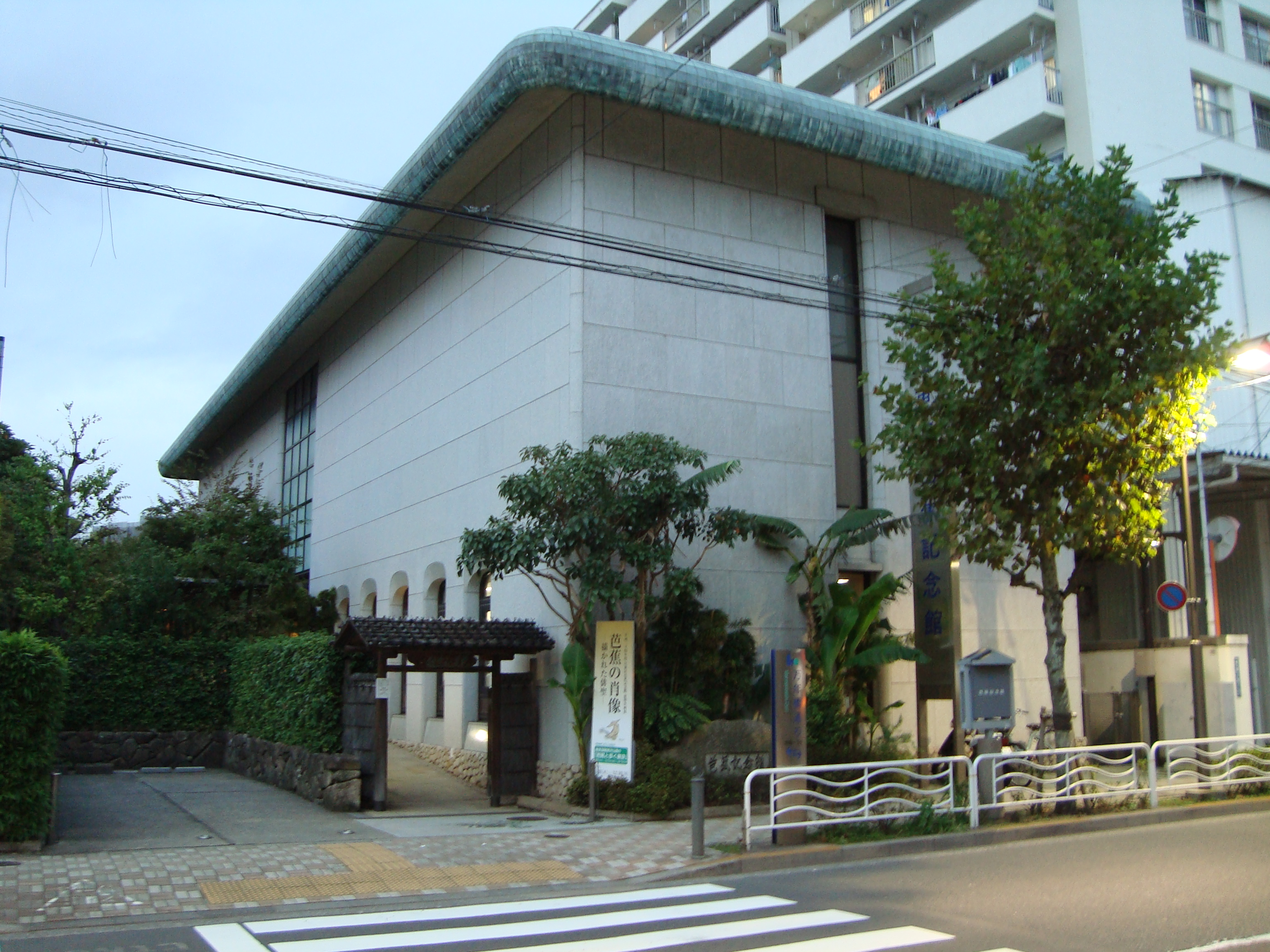 The Bashō Museum in Koto, Tokyo